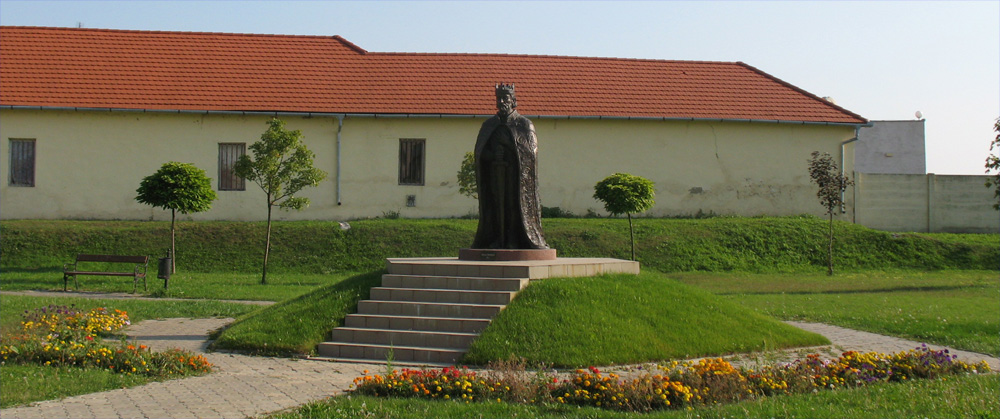 Tvrdošovce Saint Stephen I of Hungary